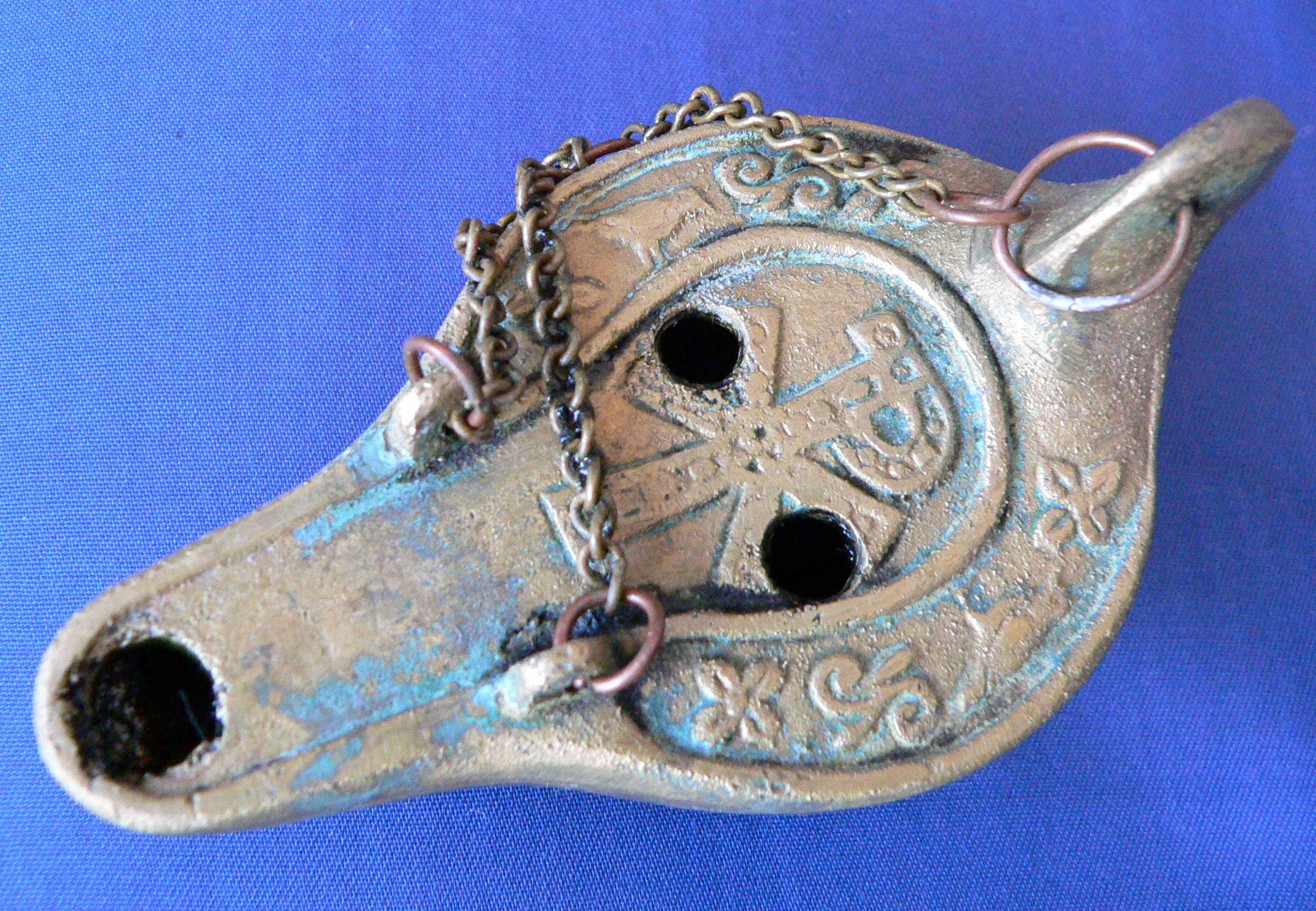 Replica of an antique Roman oil lamp, with Christian symbol Photograph by Rama